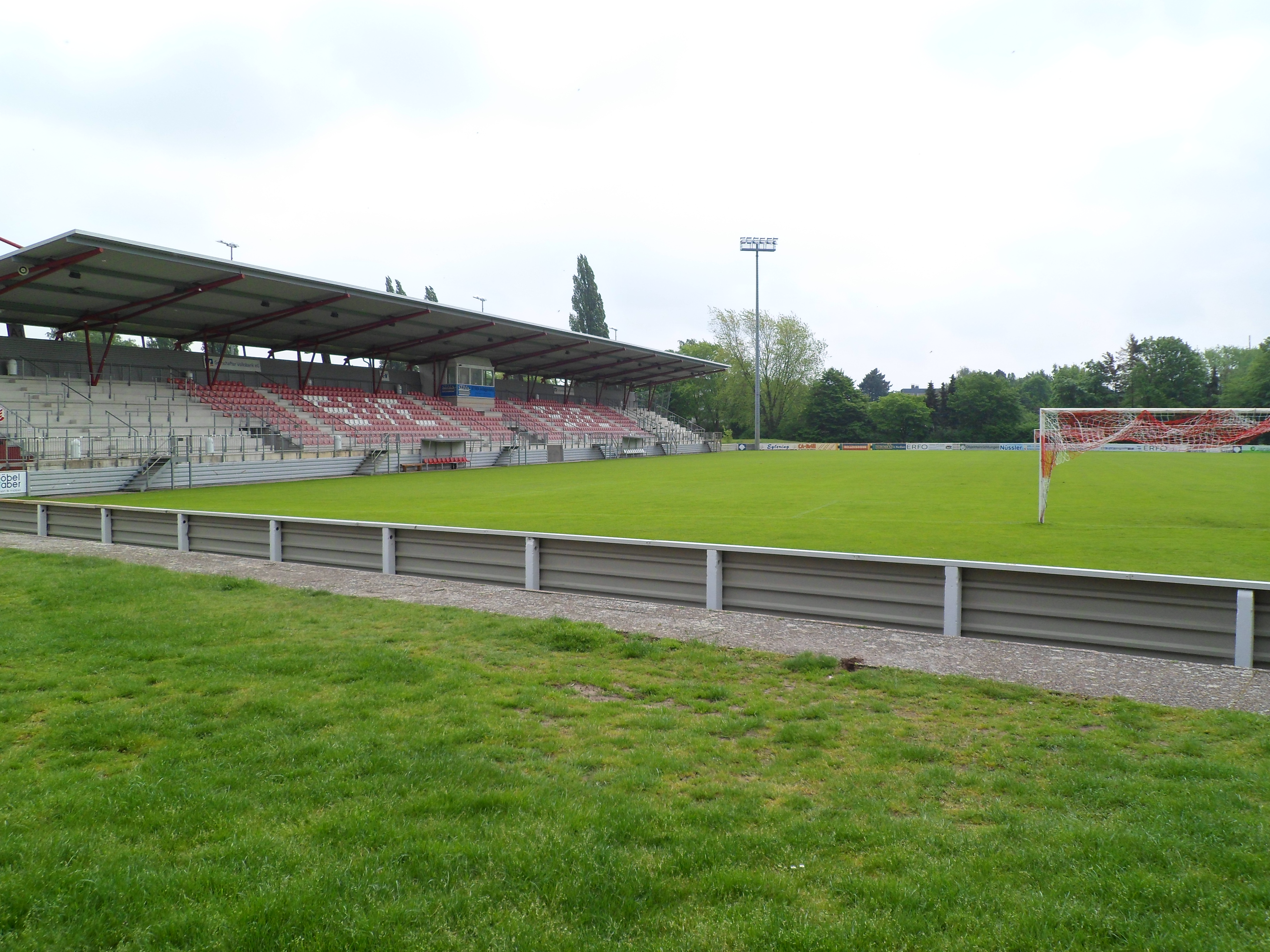 Nordhorn, Eintracht-Stadion